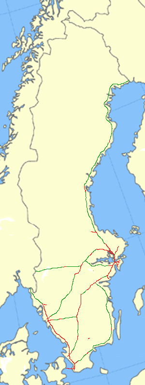 Swedish highway network